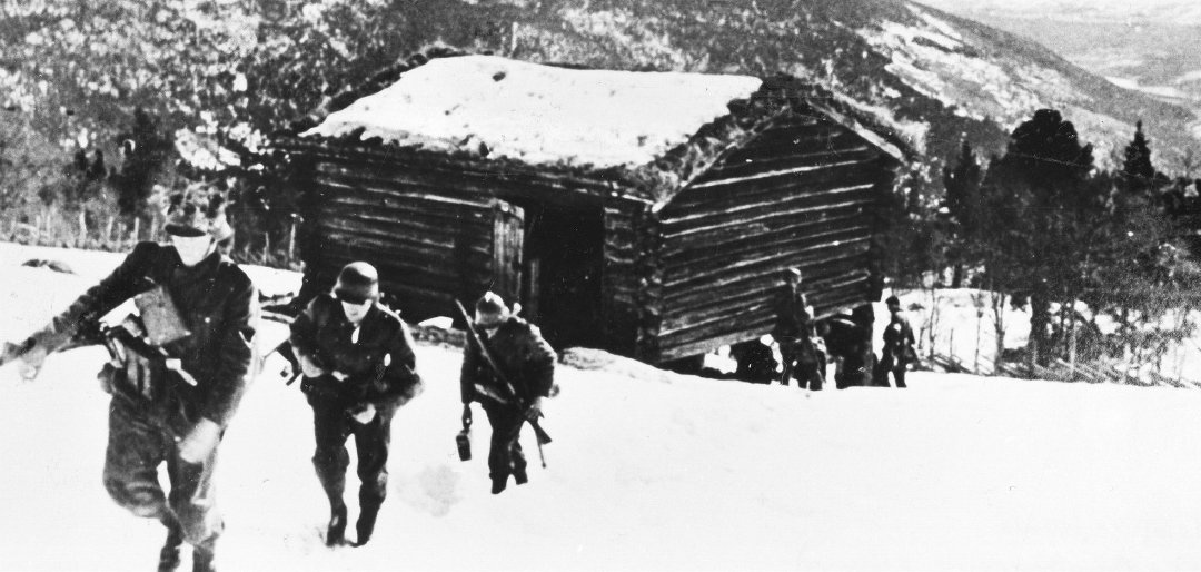 German soldiers moving through Hillingen Seter, Kvam, Norway, April 1940